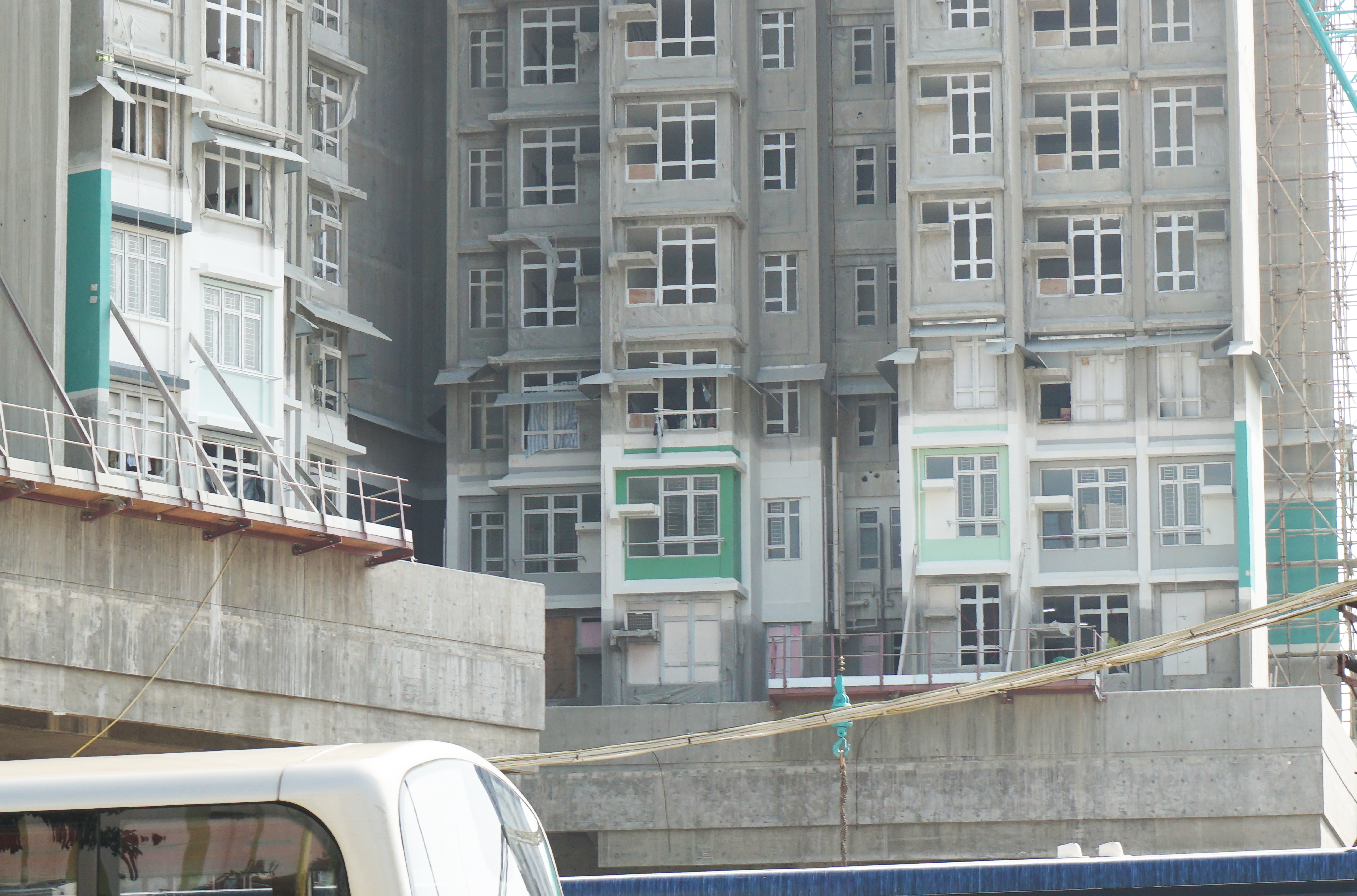 Hoi Tat Estate in Cheung Sha Wan, Hong Kong.